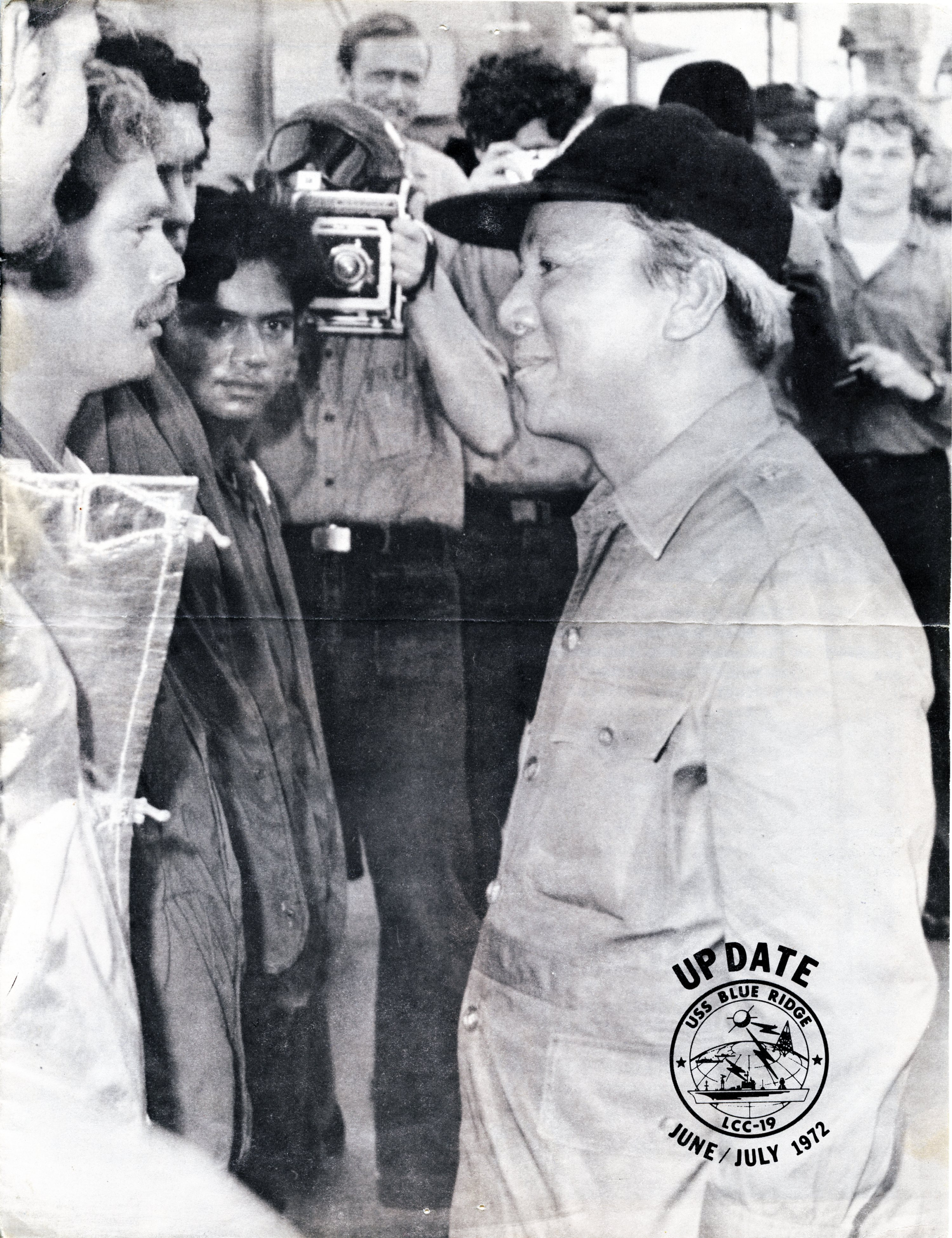 wyswyg Nguyen Van Thieu, president of the Republic of Vietnam, came aboard Blue Ridge on 28 June 1972 to confer with Vice Admiral Holloway, Admiral Gaddis, General Miller and “to convey his personal thanks to the sailors and Marines of the amphibious forces for ‘the preservation of Peace and Freedom’ in South Vietnam.” [52]